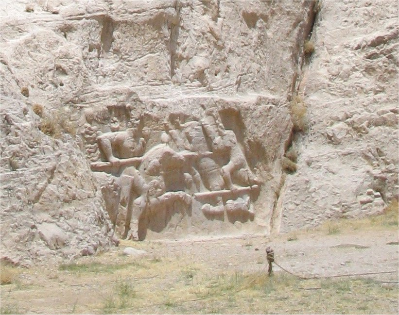 Sasanian rock relief of king Hormizd II at Naqsh-e Rostam. City of Marvdasht, province of Fars, Iran.